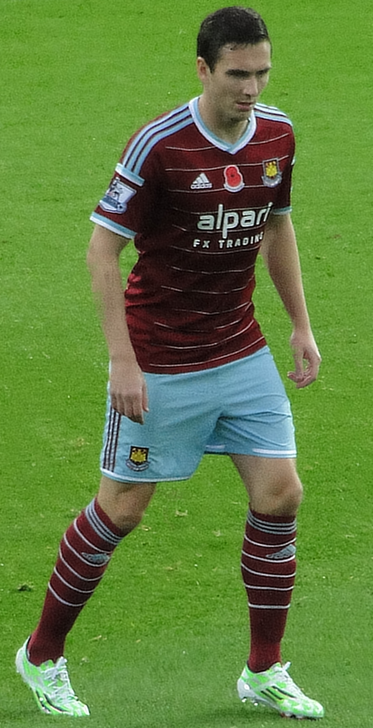 West Ham United player, Stewart Downing, playing against Aston Villa in a Premier League game at the Boleyn Ground, November 2014